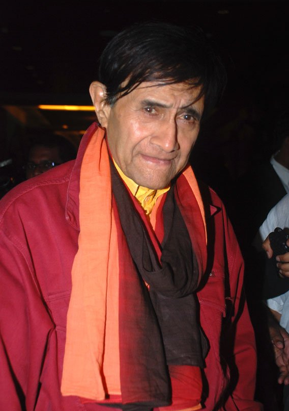 Dev Anand, Asha Parekh, at the ABN Amro Solitaire Design Awards